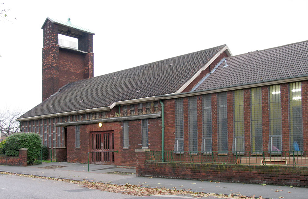 St Paul, Waddington Road, Stratford, London E15